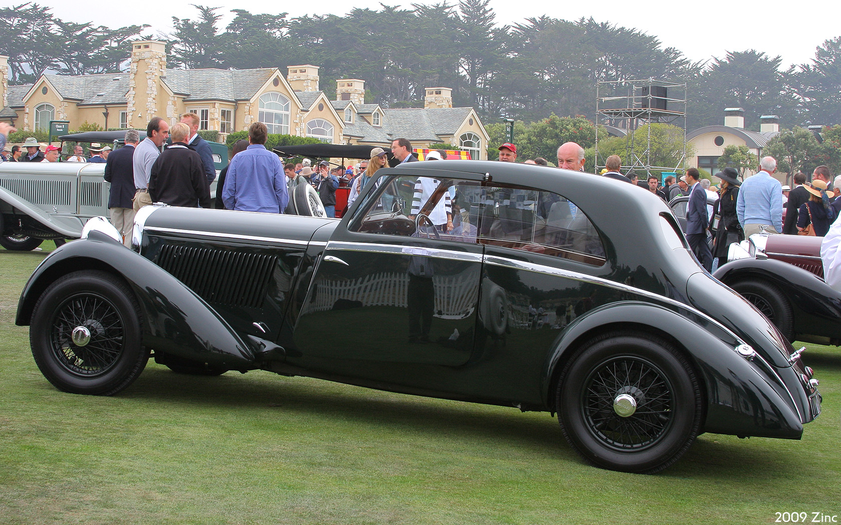 Coachwork by Enrico Bertelli of Feltham Middlesex Pebble Beach Concours dElegance, Aug 16, 2009